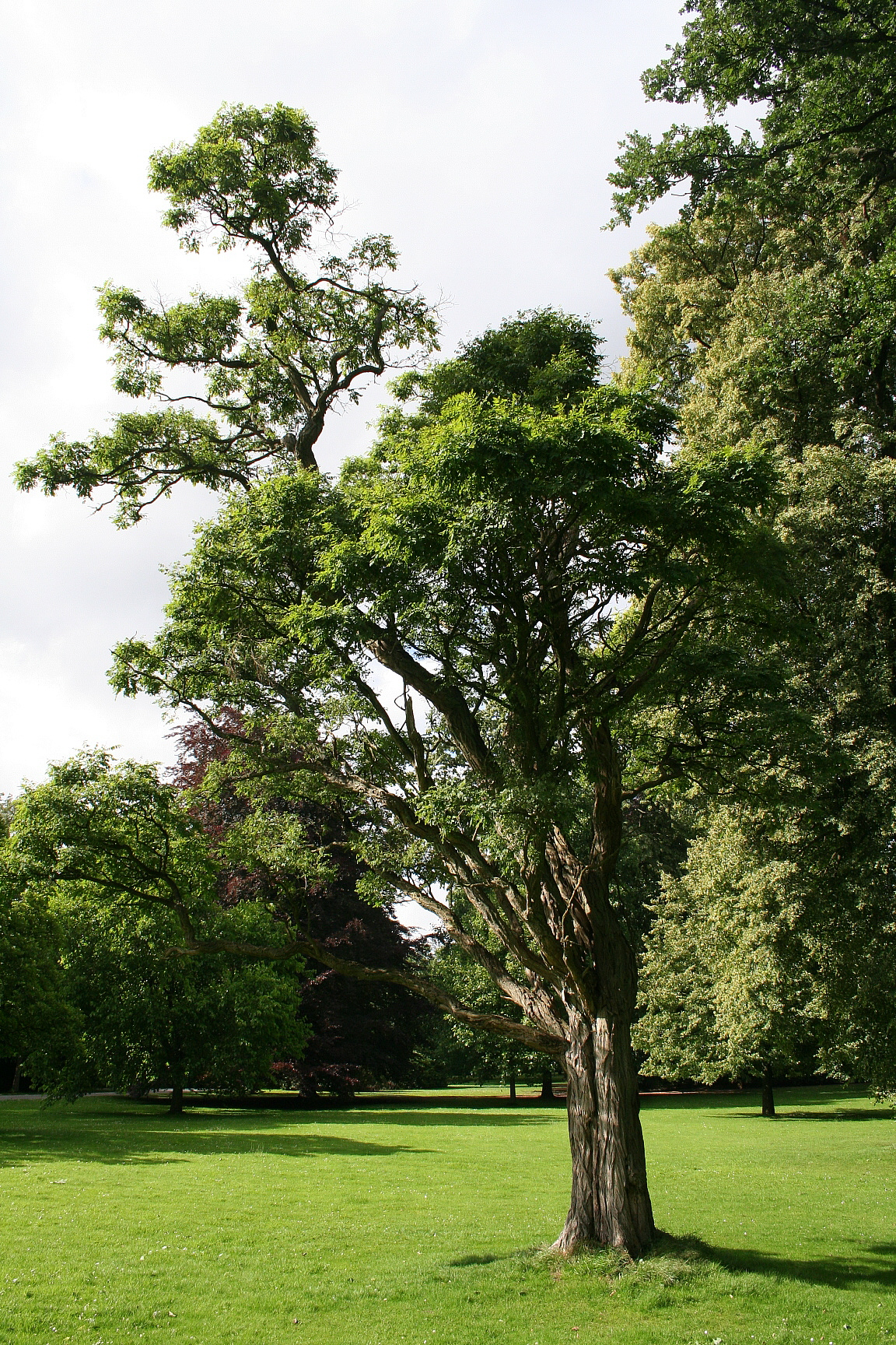 Robinia pseudoacacia ‘Umbraculifera’ .